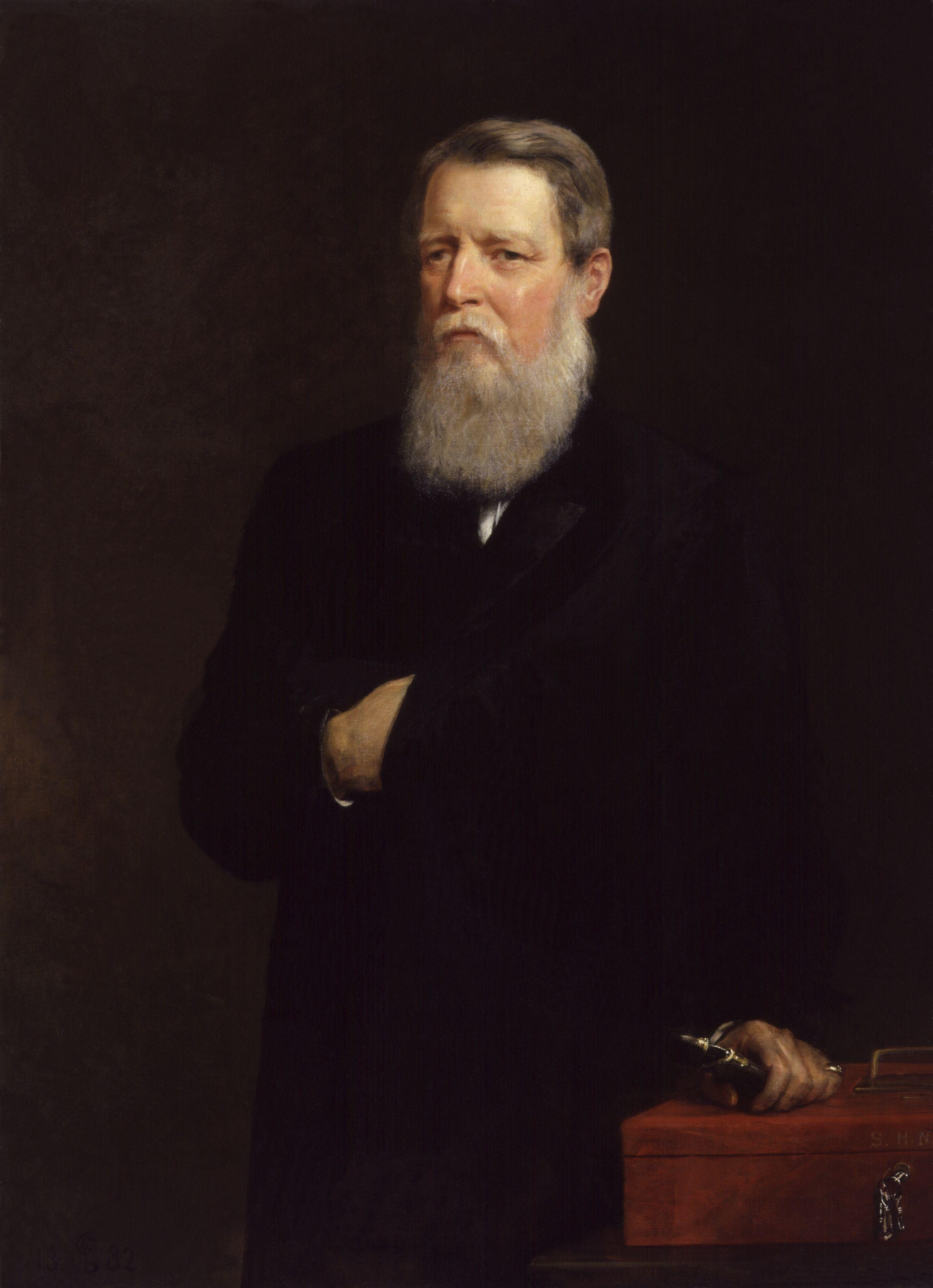 Stafford Henry Northcote, 1st Earl of Iddesleigh, by Edwin Longsden Long (died 1891), given to the National Portrait Gallery, London in 1938. All images in this batch have been confirmed as author died before 1939 according to the official death date listed by the NPG.